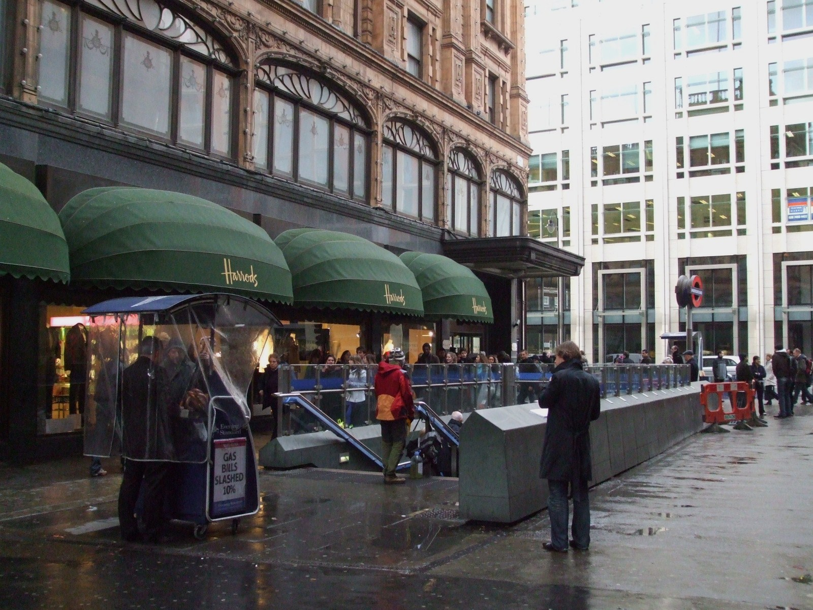 Knightbridge tube station western entrance, adjacent to the Harrods department store on the left